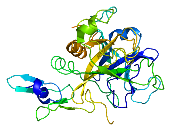 Structure of the F10 protein. Based on PyMOL rendering of PDB 1c5m.